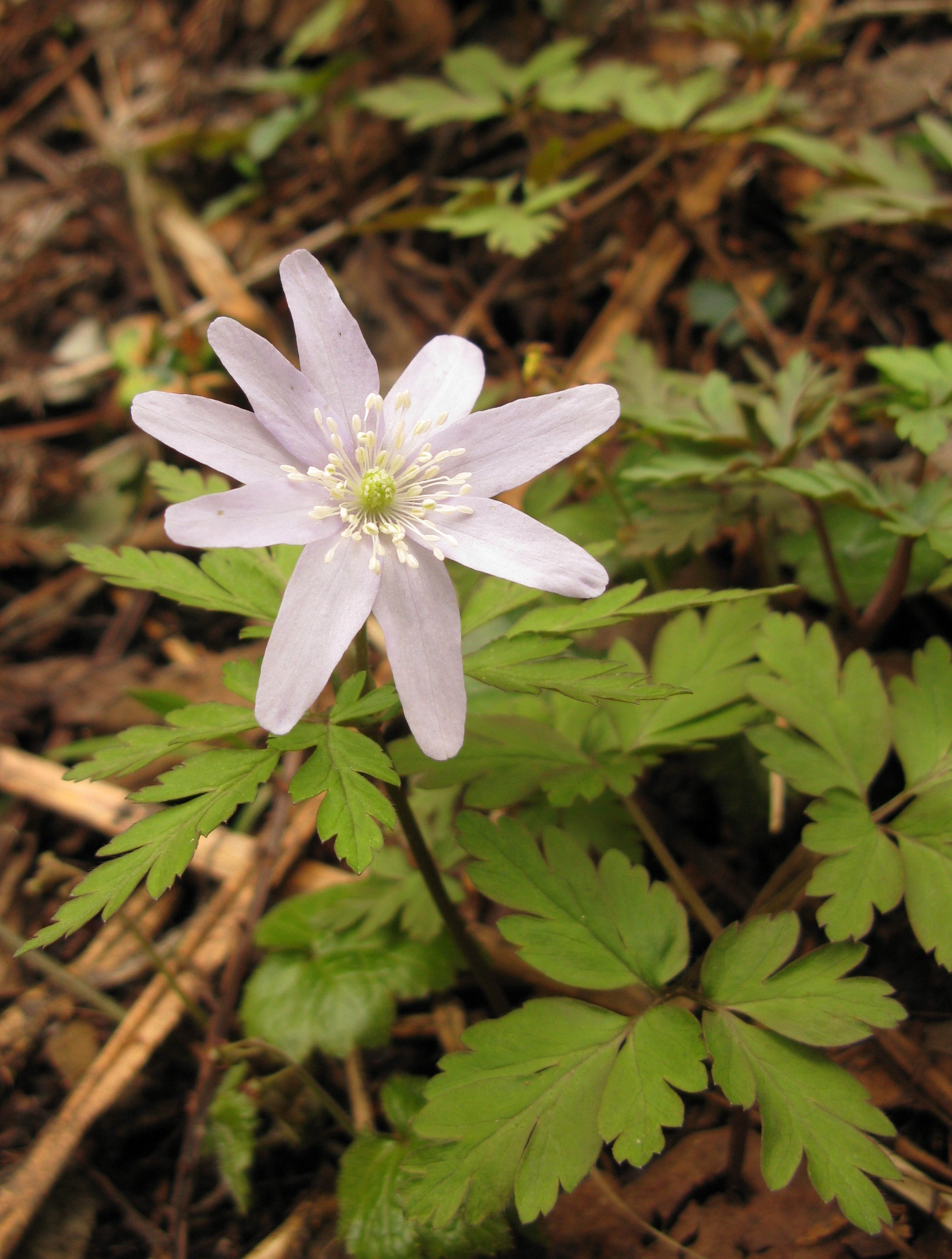 Anemone pseudoaltaica, Aizu area, Fukushima pref., Japan